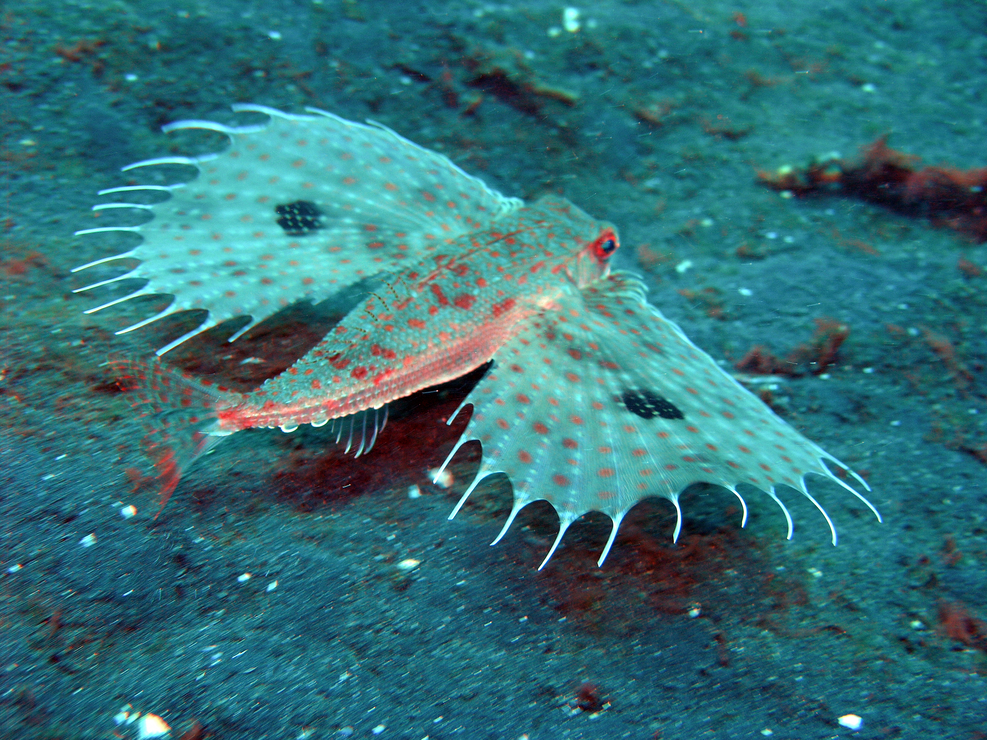 Image of an Oriental flying gurnard. Dactyloptena orientalis. Taken at Lembeh Straits, North Sulawesi, Indonesia.